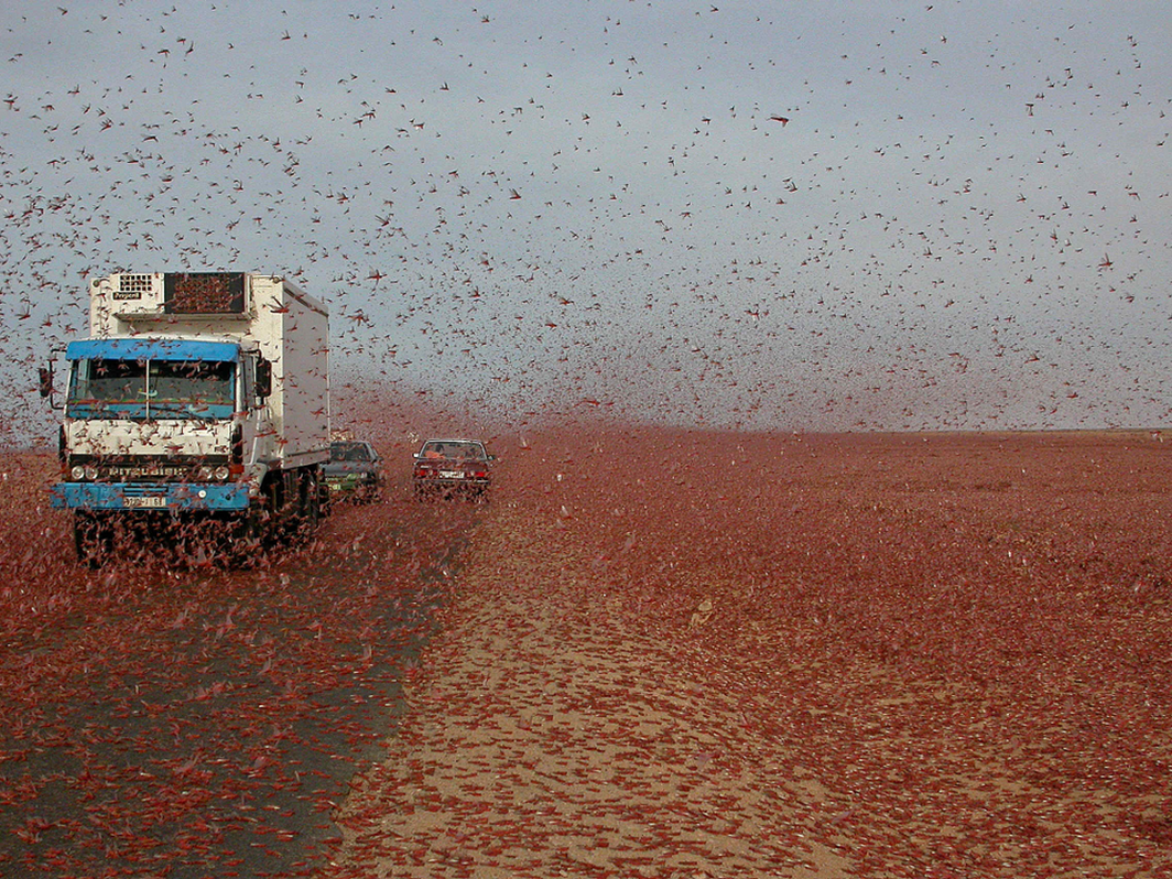 Outbreak of desert locust (Schistocerca gregaria) in southwestern Morocco in November 2004. Photo credit: Magnus Ullman